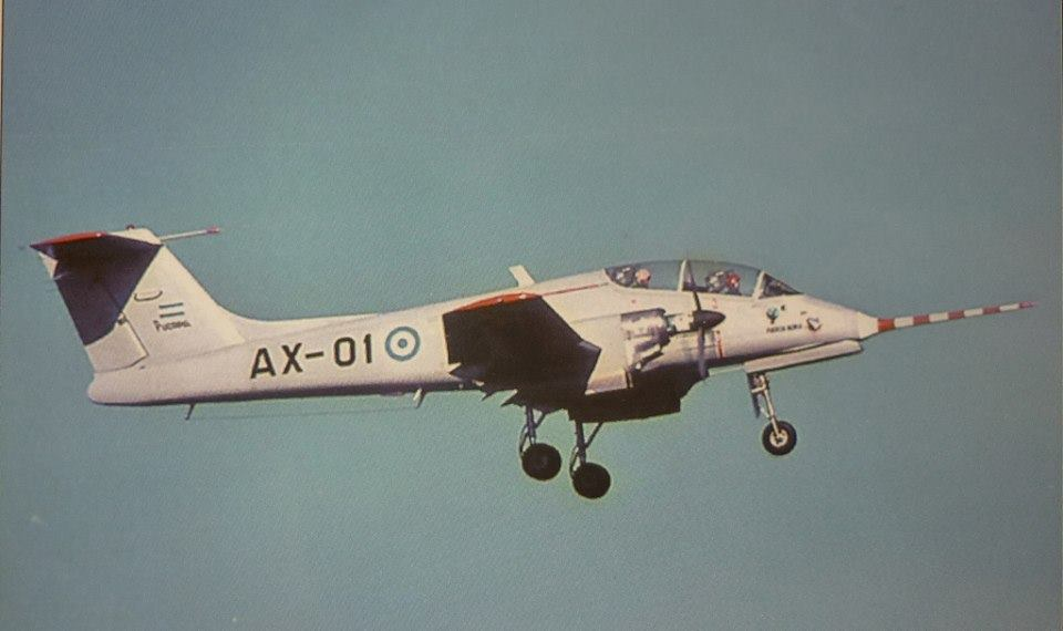 The first prototype of the IA-58 Pucara, during its first flight.